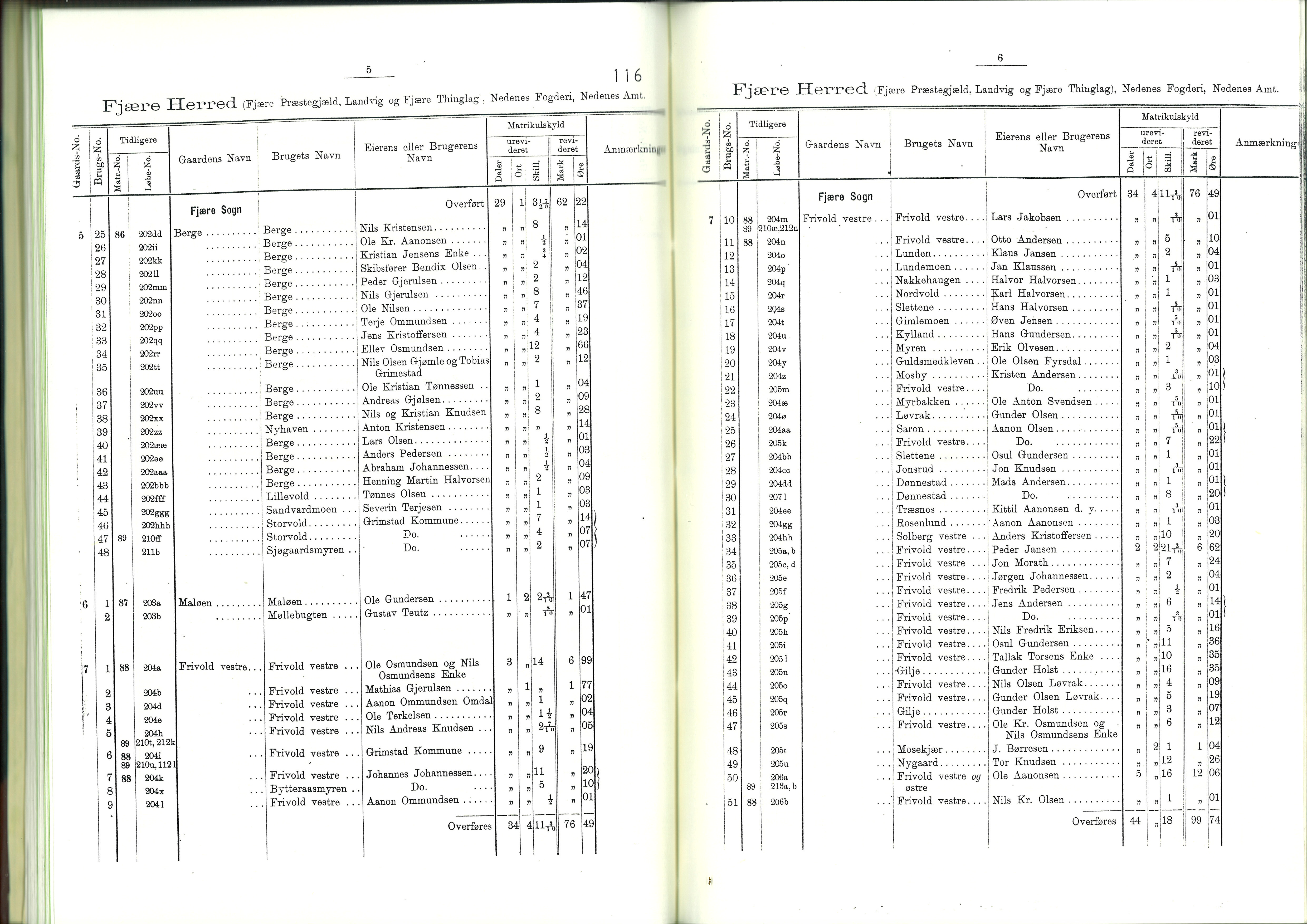 Norwegian cadastre-register from 1886, Fjære, Grimstad.